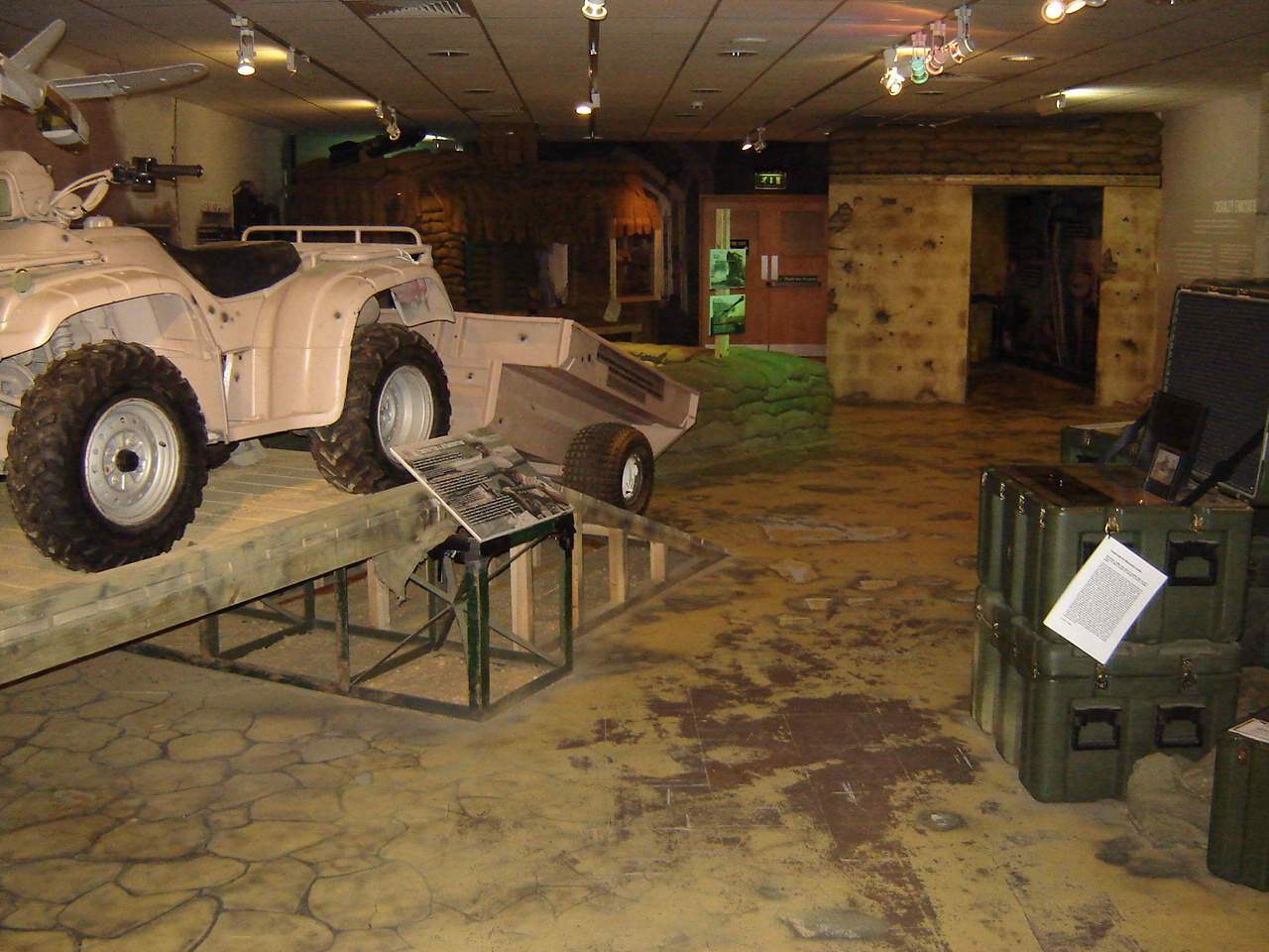 internal photographs of the national army museum